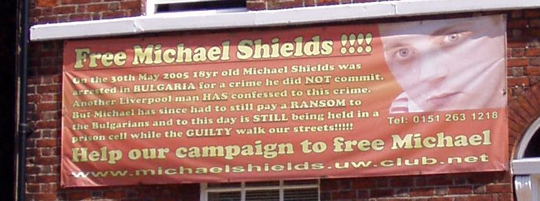 Home of Michael Shields (crop).